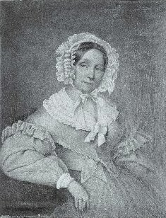 Karoline Wilhelmine Friederike von Anrep